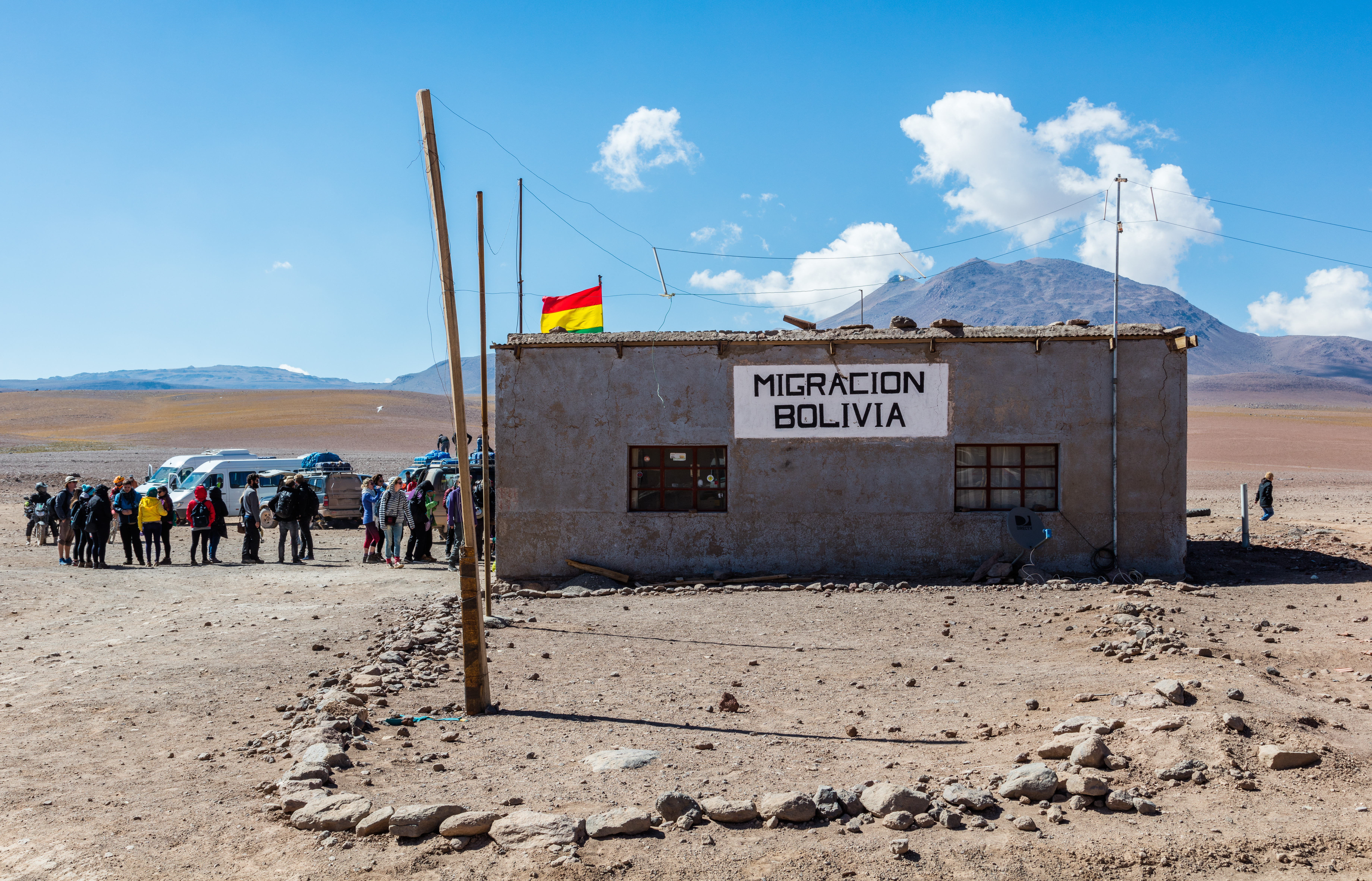 Border crossing between Chile and Bolivia